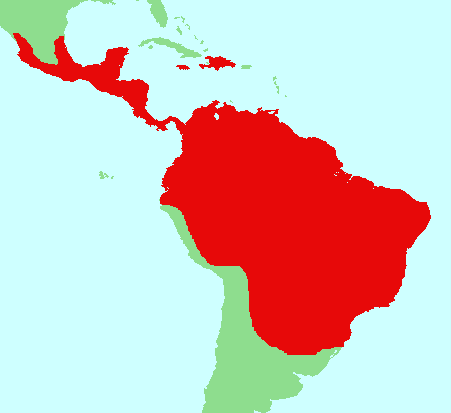 Distribution of potoos, family Nyctibiidae. Created DEMIS World Map Server using and PD source maps. Based on Handbook of the Birds of the World